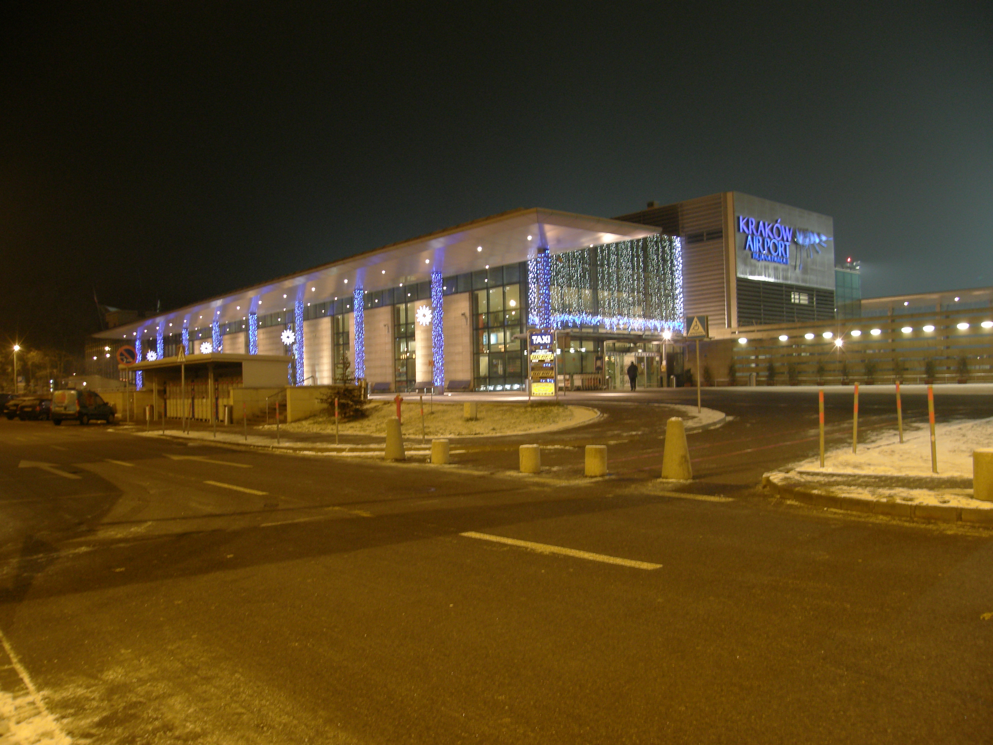 John Paul II International Airport Kraków-Balice